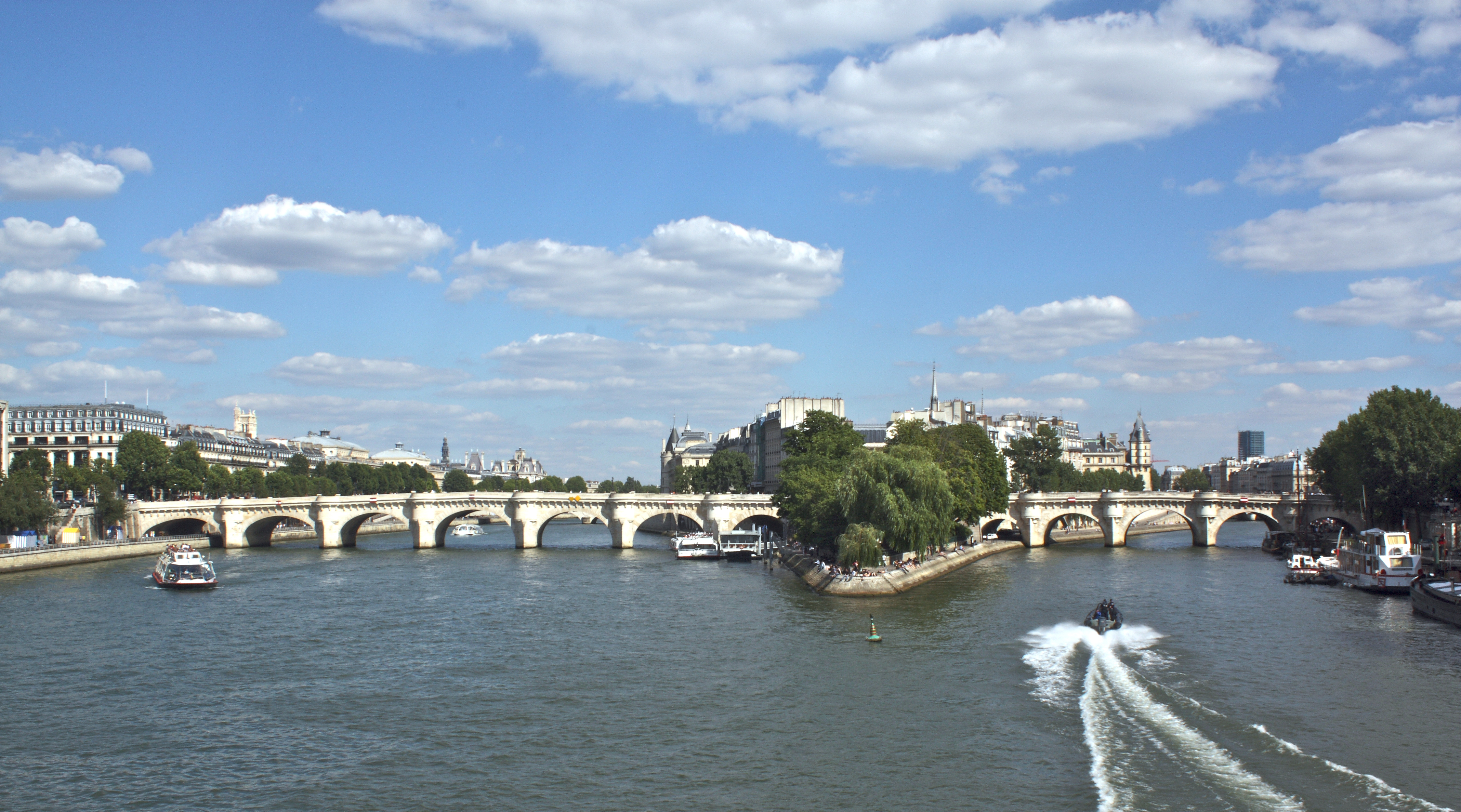 The western sides of the Île de la Cité and the Pont Neuf in Paris, France. Looking east.